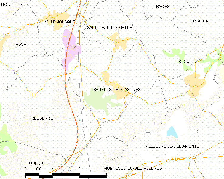 Map of French municipality